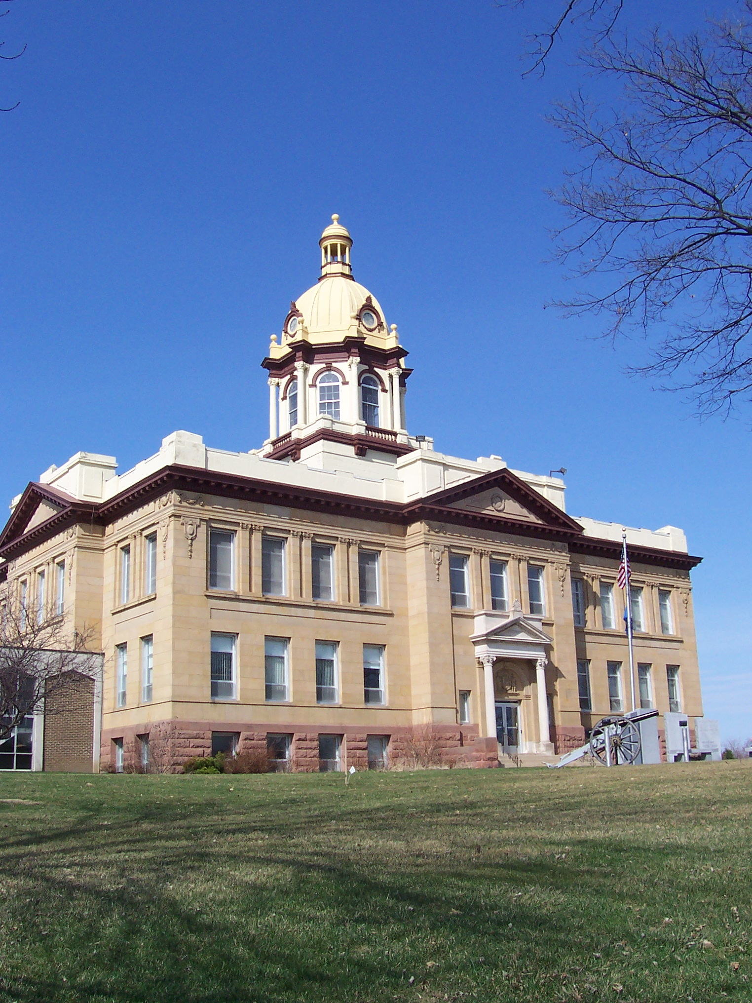 The courthouse for Pierce County, Wisocnsin in Ellsworth, Wisconsin. Picture taken by me.